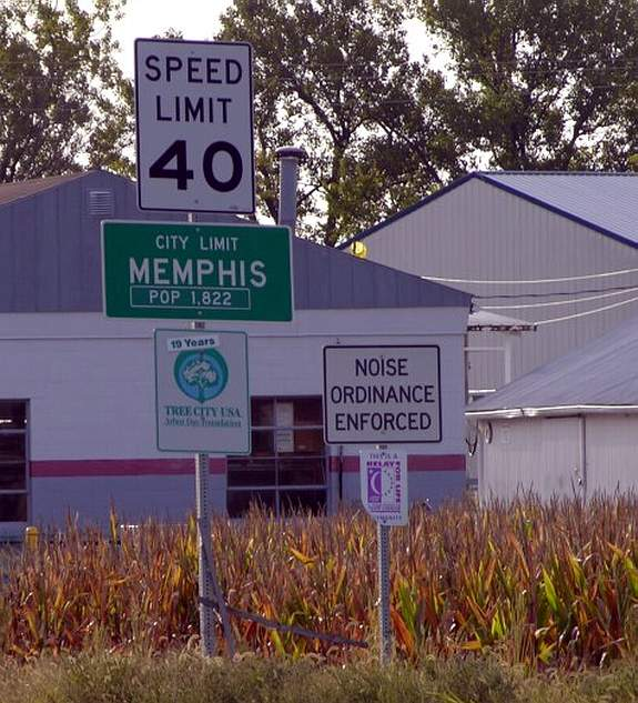 City limits sign. Memphis, Missouri.